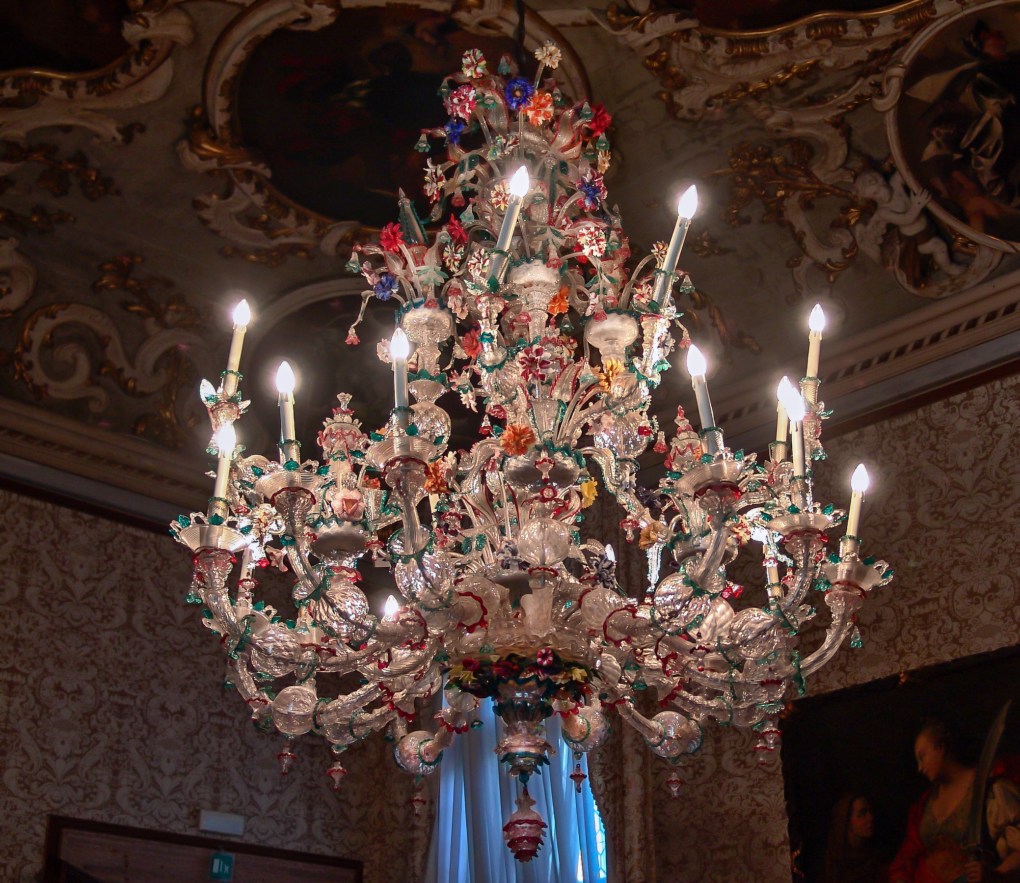 Ca' Rezzonico, Venice - Murano glass chandelier with twenty lights in two rows, decorated with flowers in bright colored glass, produced in the mid-eighteenth century by Giuseppe Briati's studio in Murano.